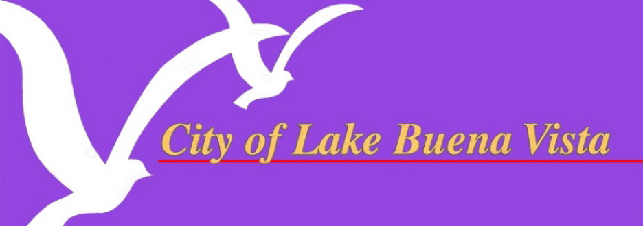 Lake Buena Vista logo